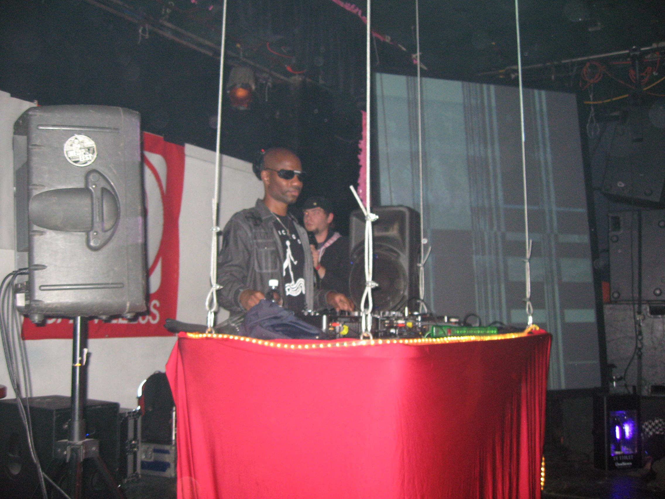 Curtis Jonnes DJing as Cajmere at the Decibel Festival 2011 in Seattle.